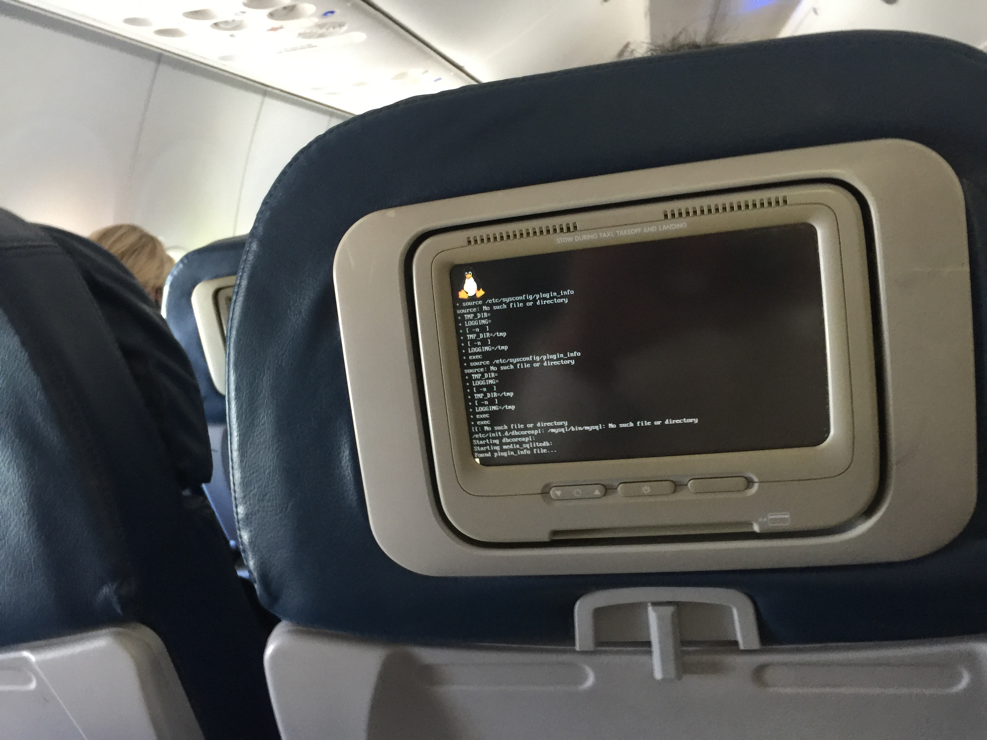 Linux logo showing on in flight entertainment system